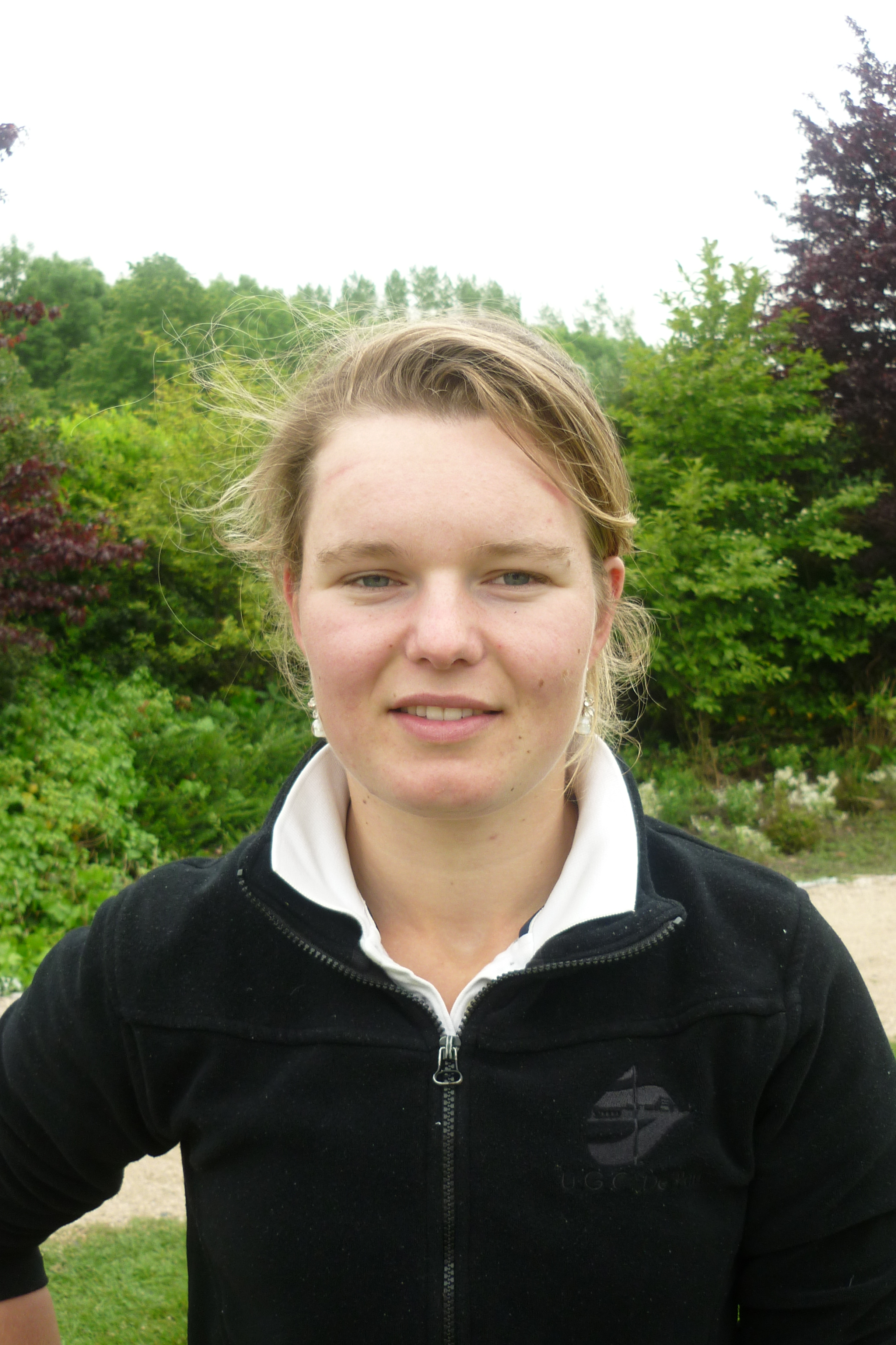 Karlijn Zaanen at Dutch Ladies Open